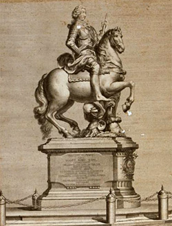 Equestrian Statue of Duke Francesco III d'Este by Giovanni Antonio Cybei